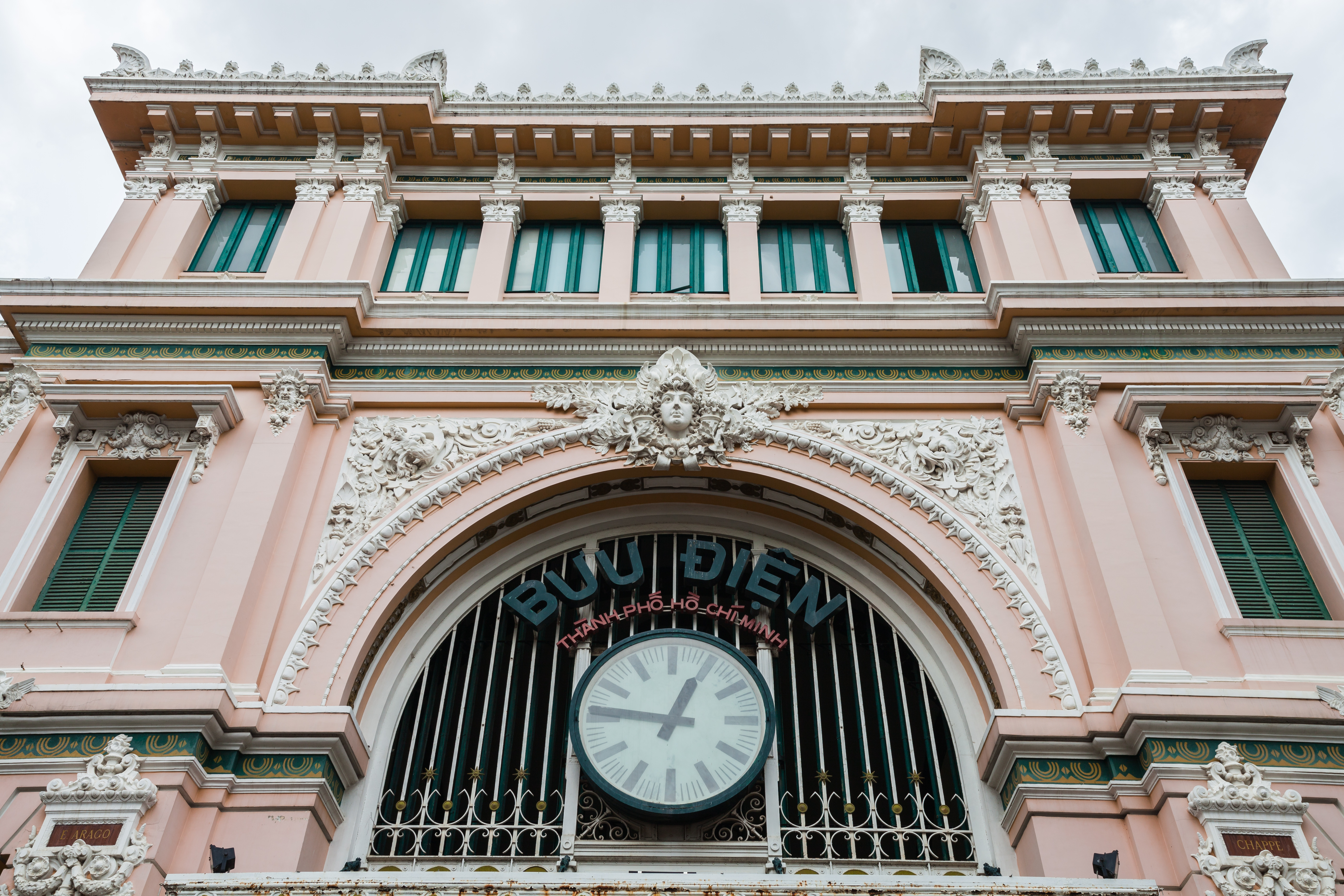 Central Post Office, Ho Chi Minh City, Vietnam